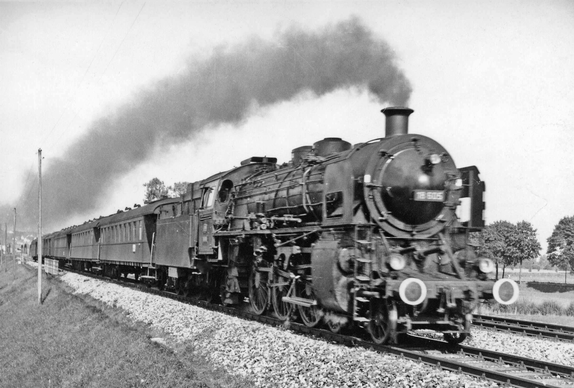 Ulm-Lindau train with an Bavarian S 3/6 at Erbach, near Ulm (Würtemberg).